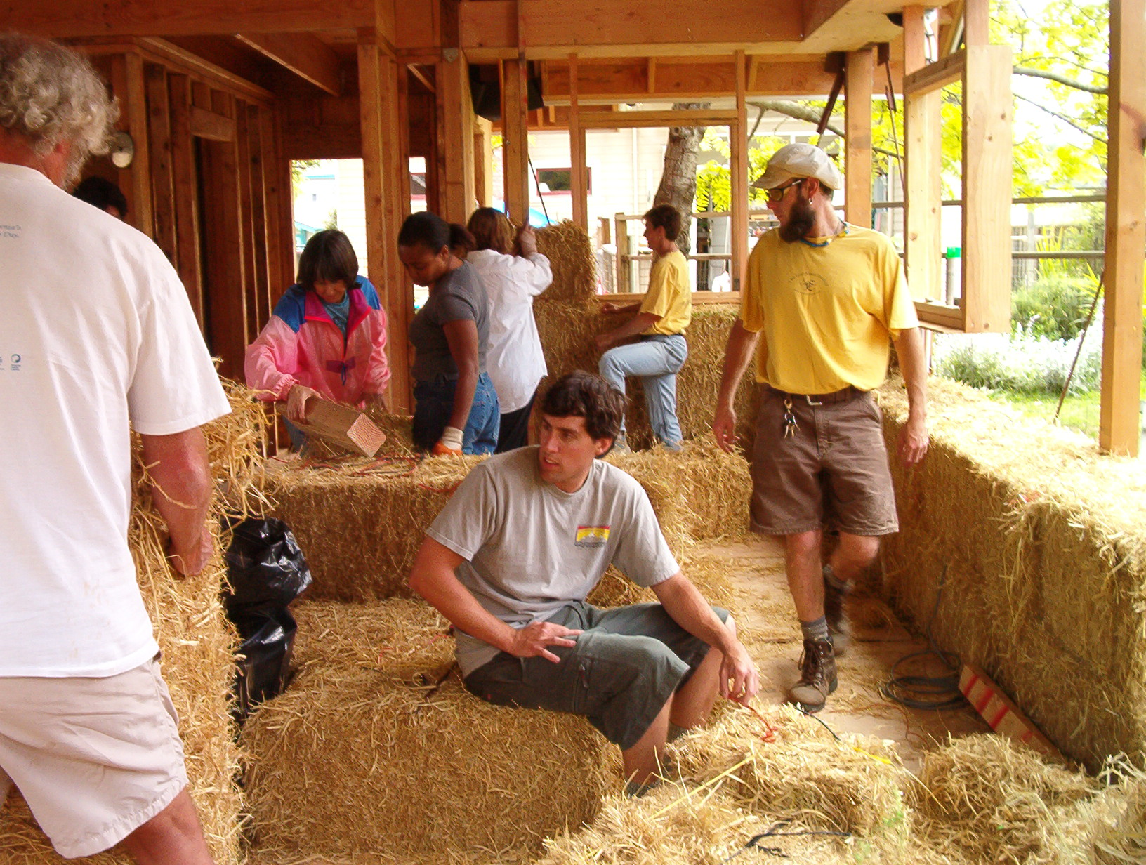 Straw bale construction of a house in Santa Cruz, California.